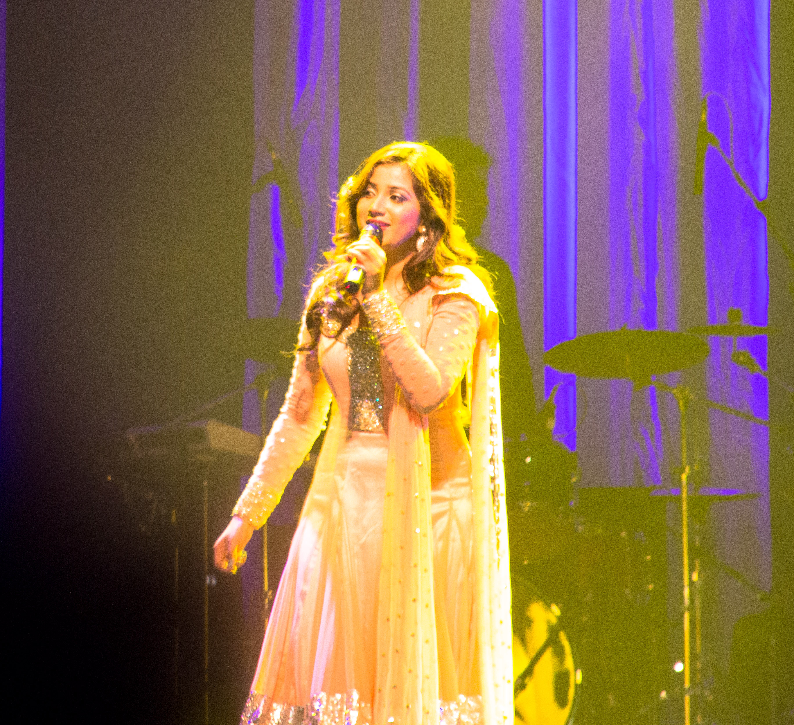 Shreya Ghoshal at her concert in Toronto in September 2012